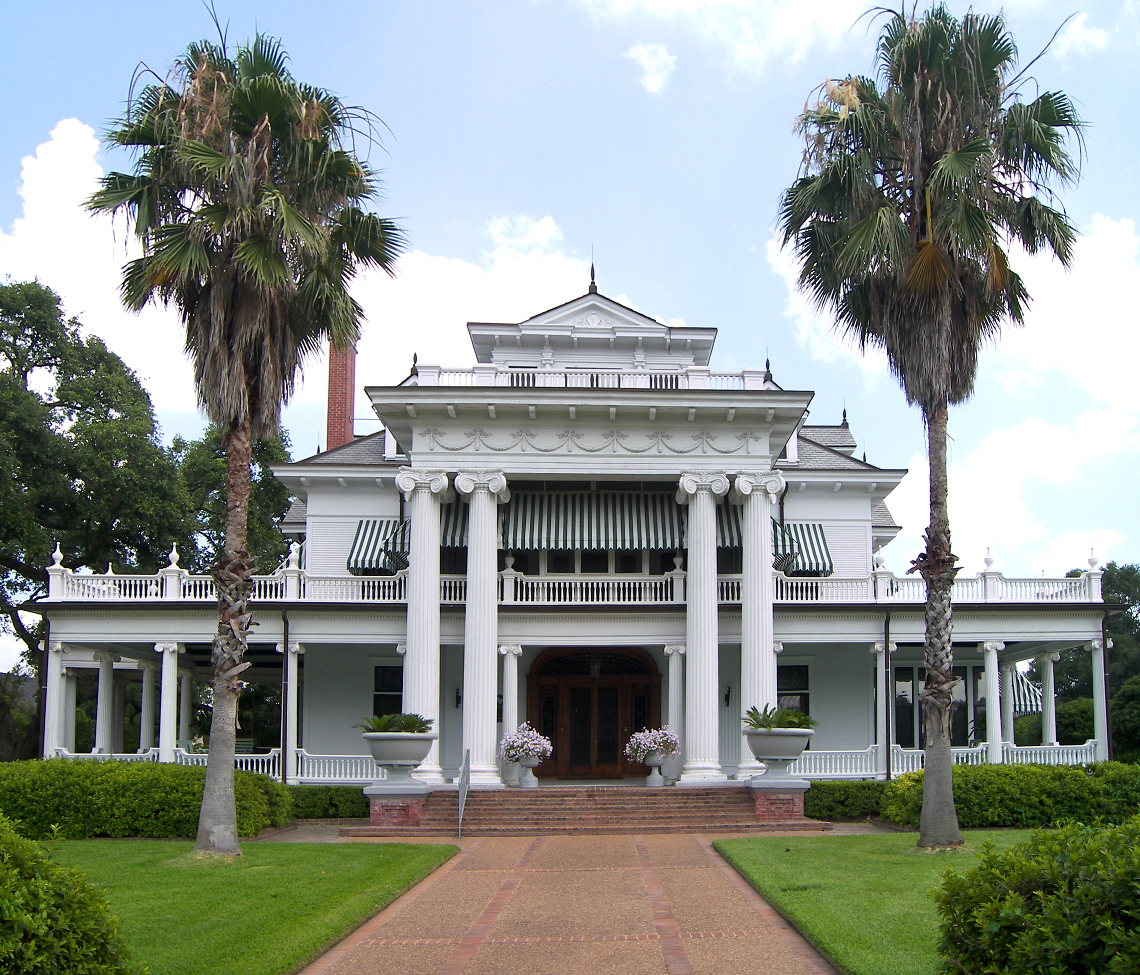 The McFaddin-Ward House in Beaumont, Texas, United States. The Beaux-Arts style house, built in 1906, was listed on the National Register of Historic Places on January 25, 1971 and was designated a Recorded Texas Historic Landmark in 1976. The historic home is 12,800-square-foot (1,190 m2)